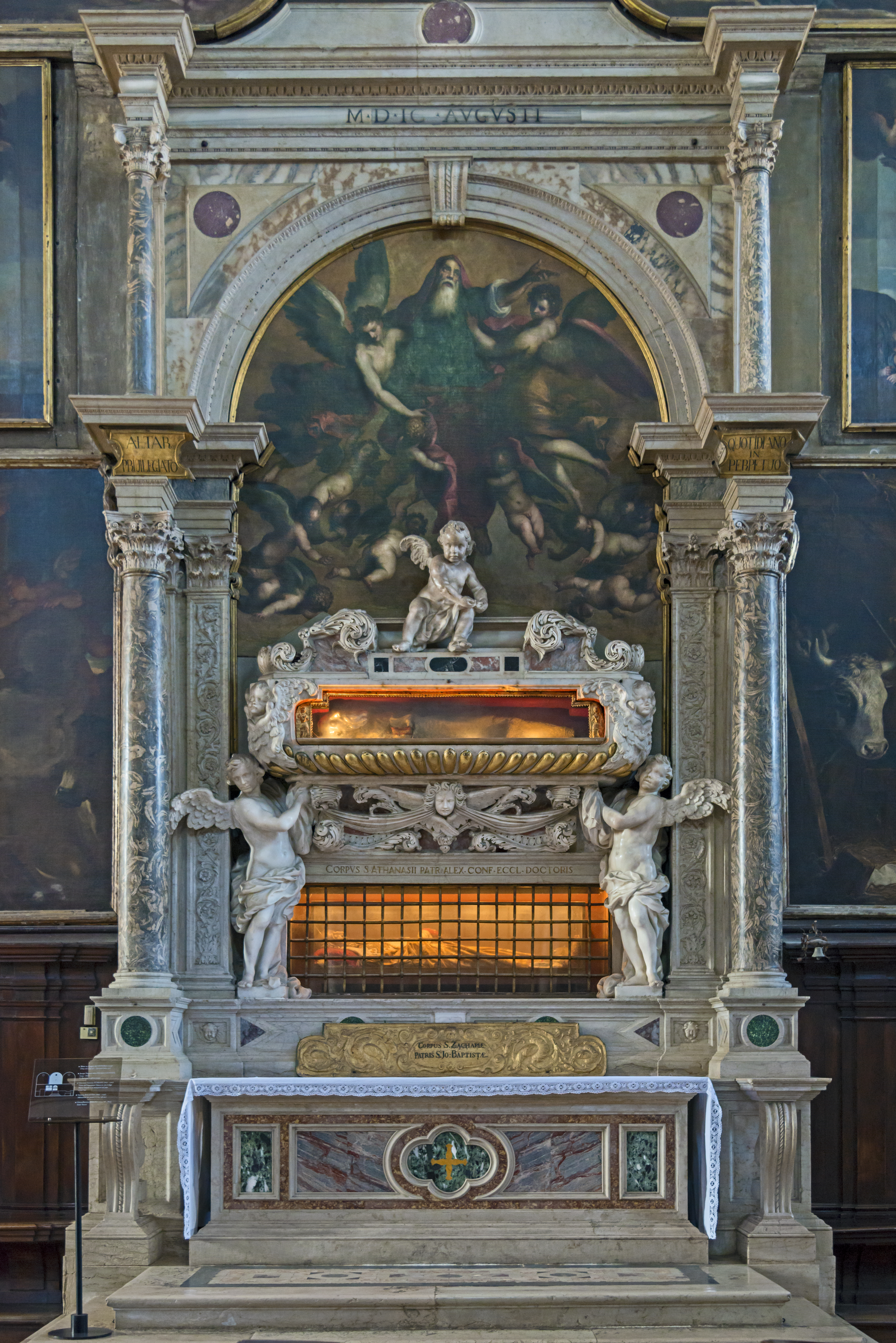 San Zaccaria, Venice. Altar of San Zaccaria. Tomb of Zaccaria and Saint Athanasius. Polychrome marbles by Alessandro Vittoria. The picture of the altar by Palma il Giovane, represents San Zaccarie in glory between angels.